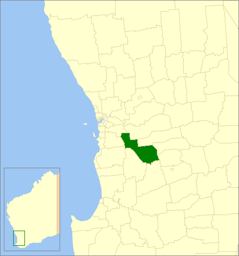 Description=Location of the Local Government Area in Western Australia